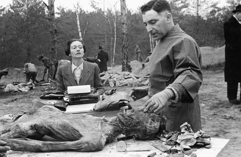 The Katyn Massacre, 1940 Member of the International Medical Commission - Dr Vincenzo Palmieri, Professor of Forensic Medicine and Criminology at the University of Naples, dictating results of the body examination to his personal assistant.